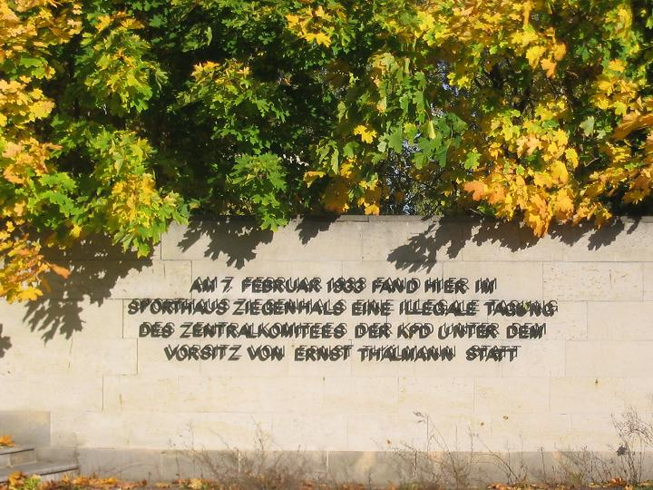 Sporthaus Ziegenhals in Niederlehme, Ernst Thälmann memorial place. The village Niederlehme is a part of the town Königs Wusterhausen in the district Dahme-Spreewald, state Brandenburg, Germany.